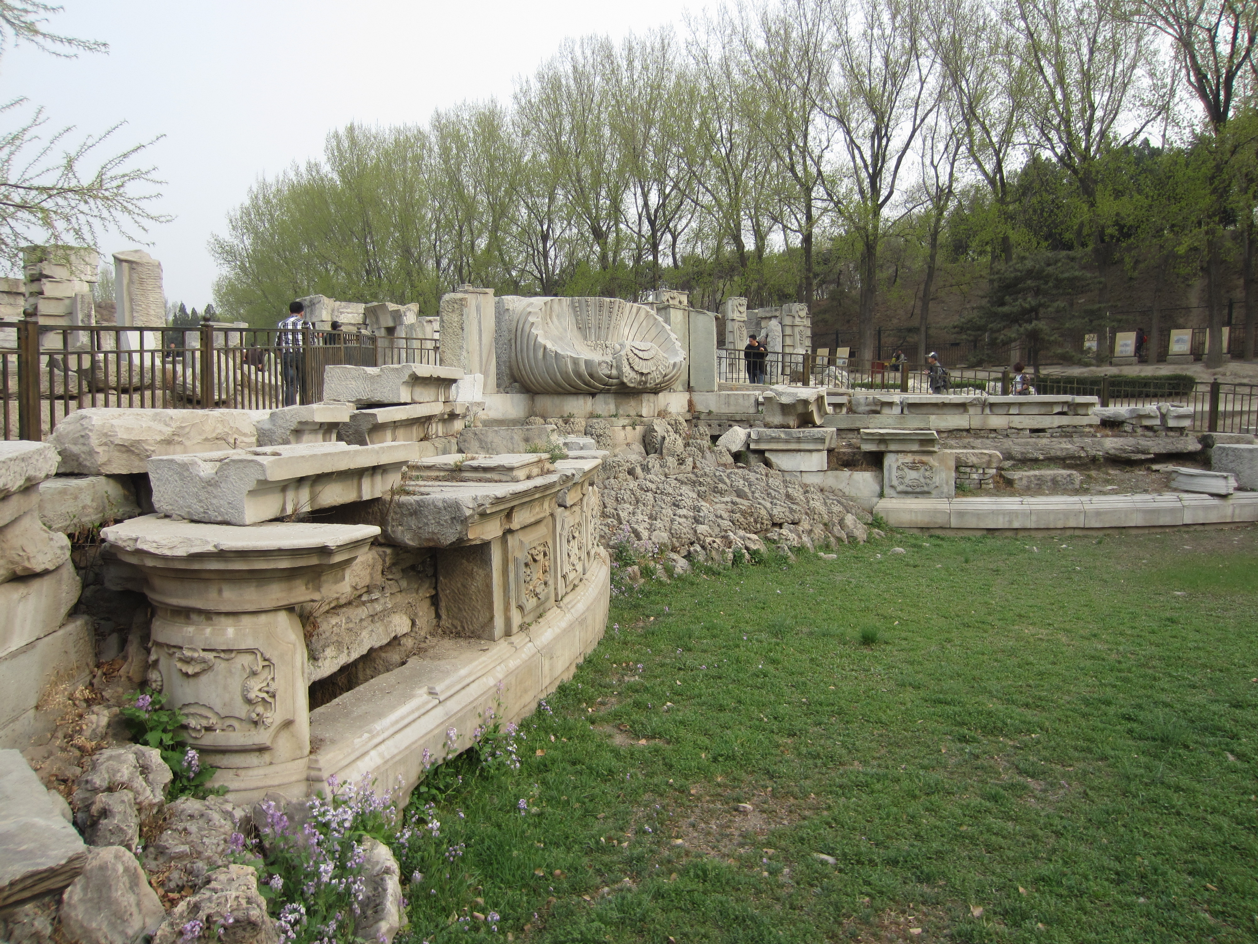 Haiyantang ruins in Yuanmingyuan.